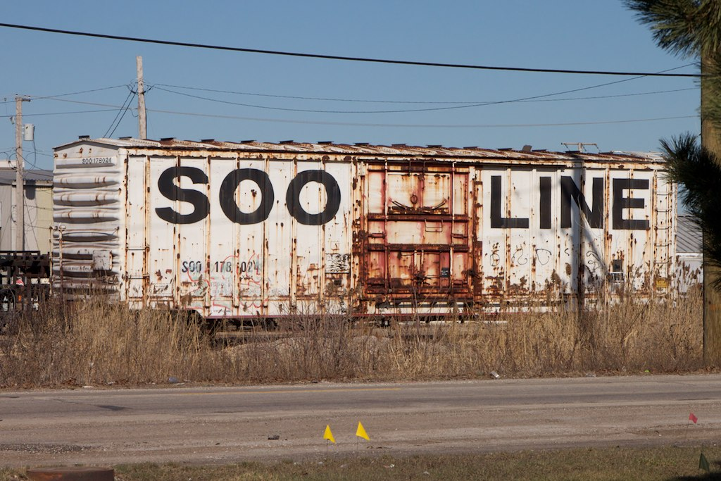 Rusted Soo Line boxcar